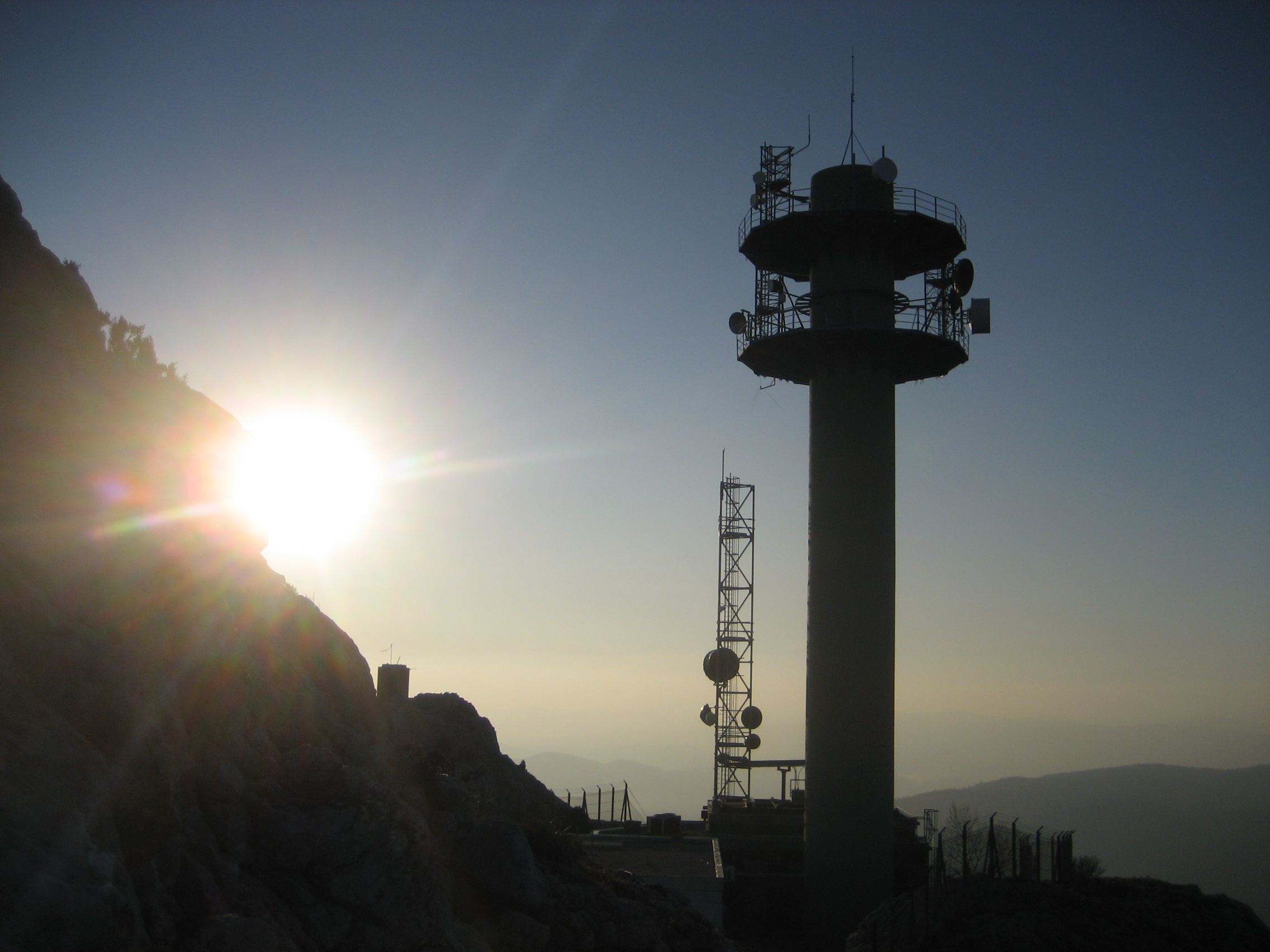 on top